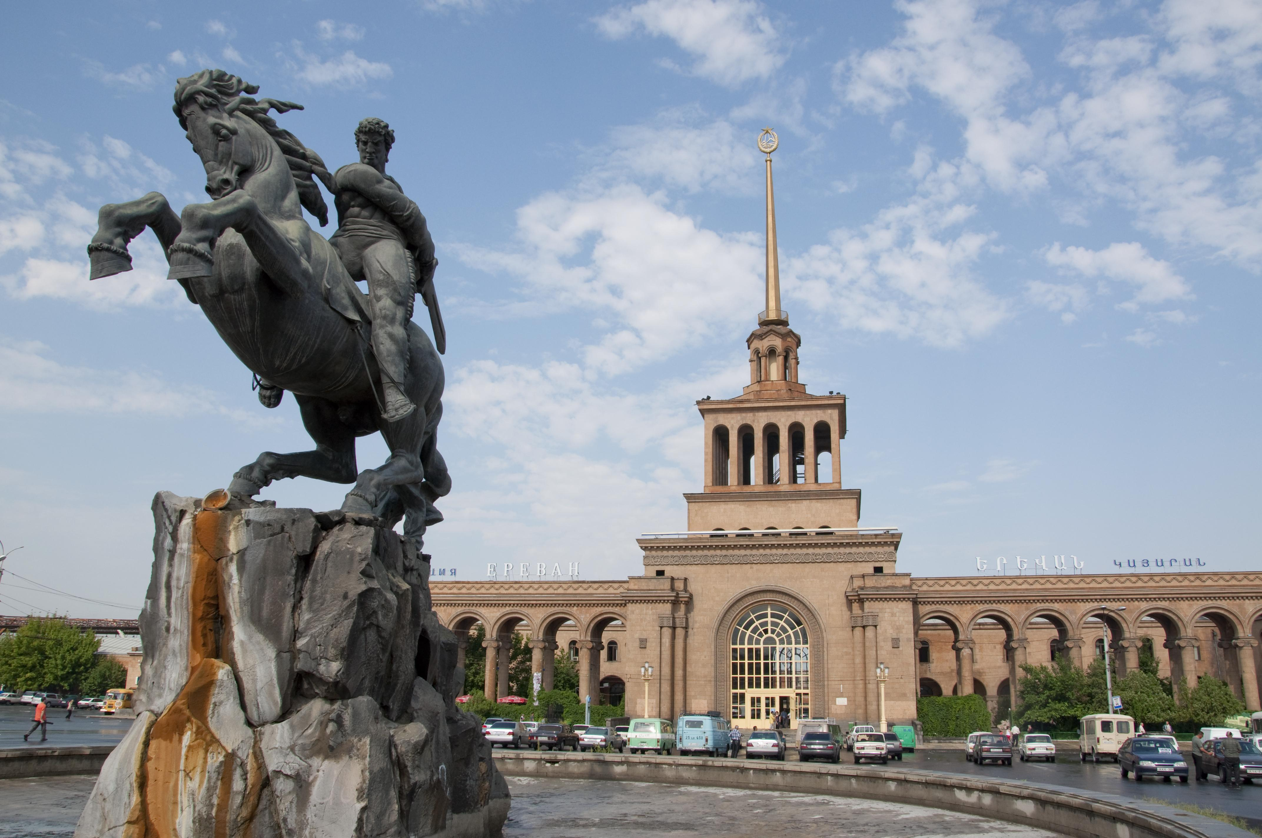 The statue of Sasuntis Daivt and the same name train station, Yerevan, Armenia.